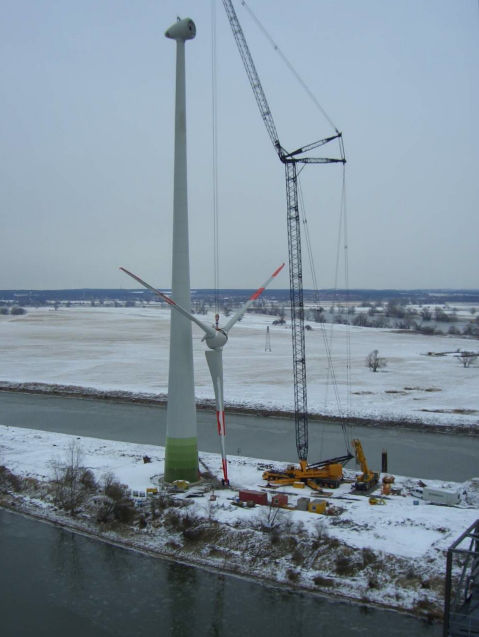 Enercon E70-4 wind energy converter at Steinkopf island in Magdeburg, Germany. hub hight: 114 m, rotor diameter ca. 71 m